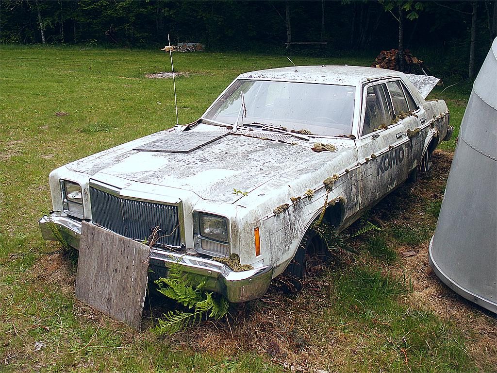 The remains of a car, a Mercury Monarch, once owned by KOMO TV, Seattle, Washington, that was involved in the May 18, 1980 eruption of Mt. St. Helens. Photo was taken at the 19-Mile House Restaurant and Gift Shop, which was also a former museum, on May 18, 2007 - the 27th anniversary of the famous eruption.